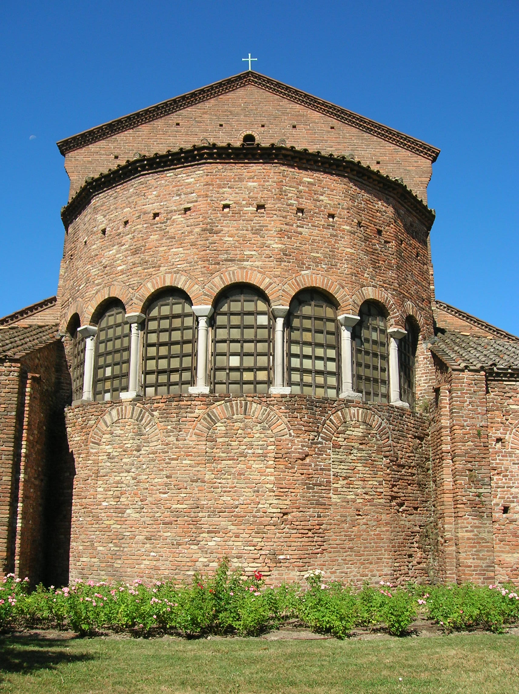 A picture of Saint John the Evangelist's church in Ravenna (Italy) showing the apse from the outside